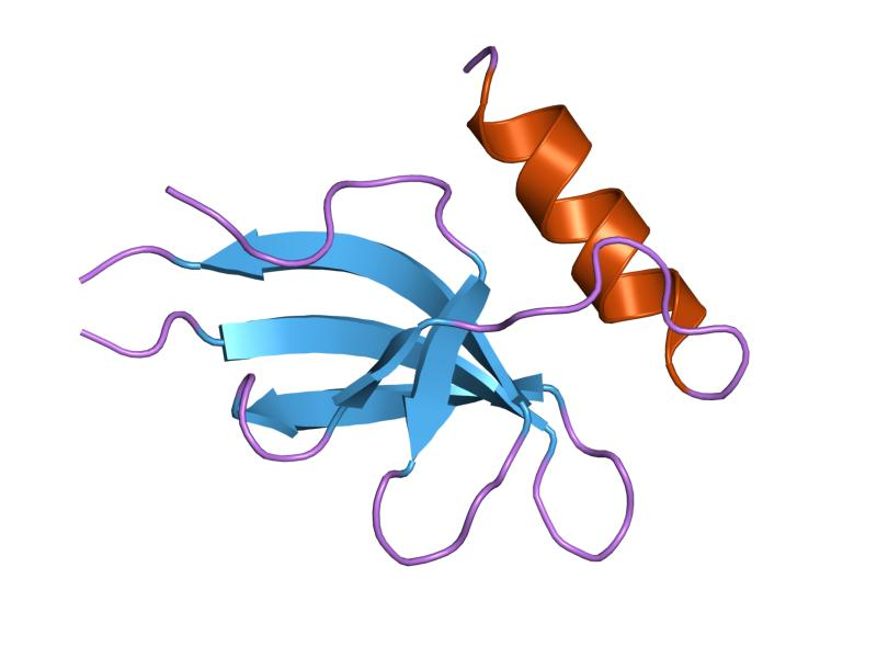 Cartoon representation of the molecular structure of protein registered with 1vbv code.